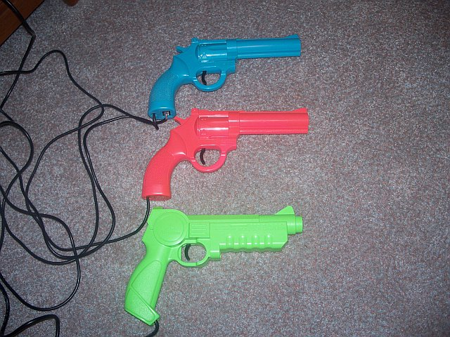 Konami Justifier light gun controllers.